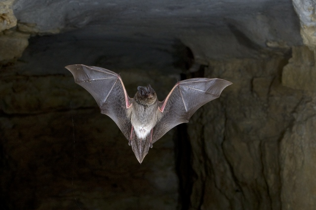 Barbastelle flying, Barbastella barbastellus